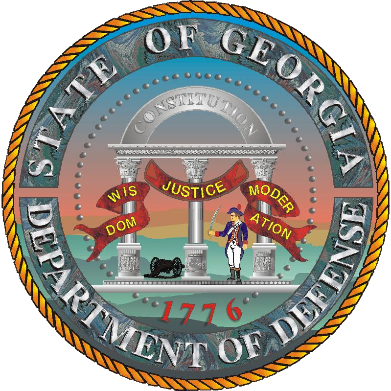 Georgia DoD logo